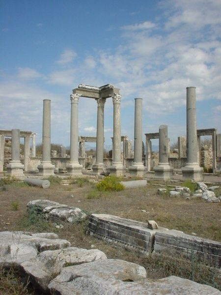 Ruins at Perga, the capital of Pamphylia, on the coast of Asia Minor.